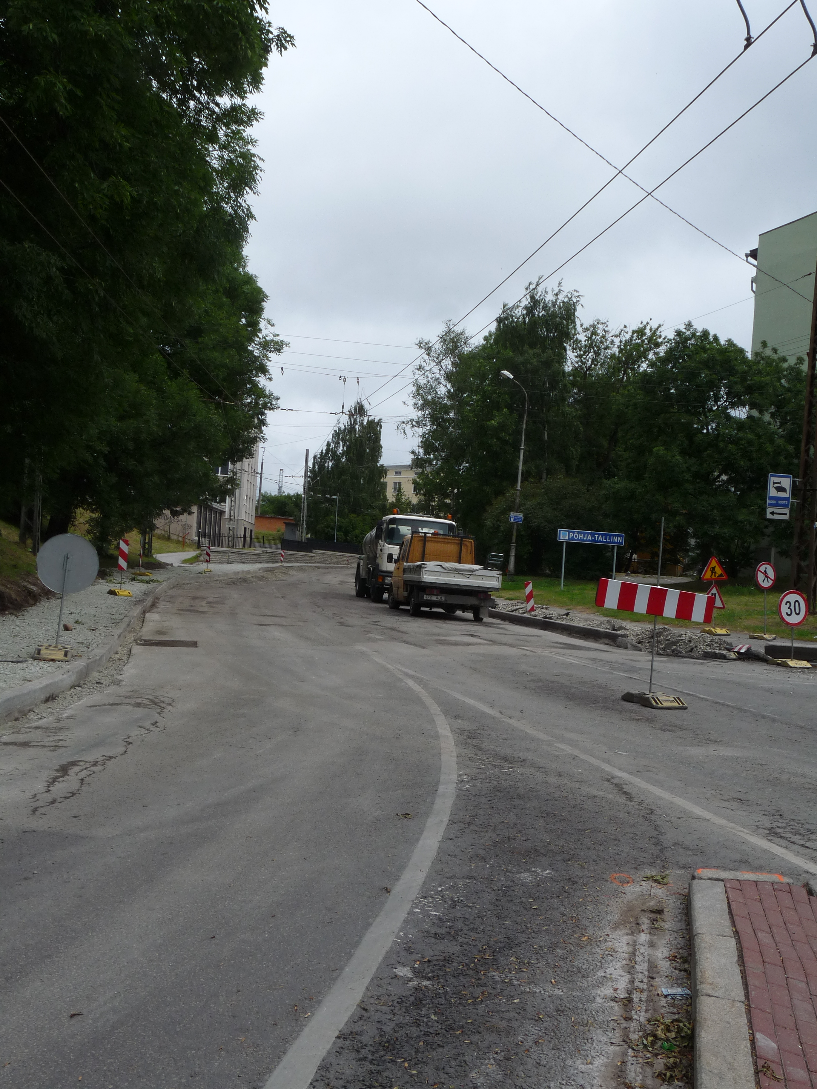 Tehnika street in Tallinn, Estonia